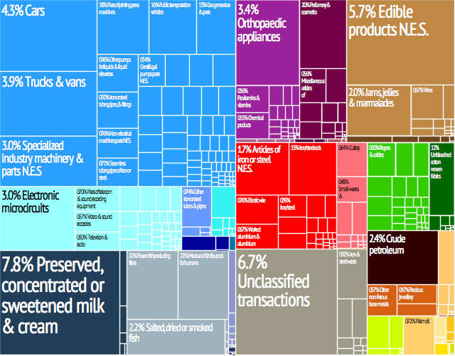 Export Trading Treemap. From MIT/Harvard Atlas of Economic Complexity